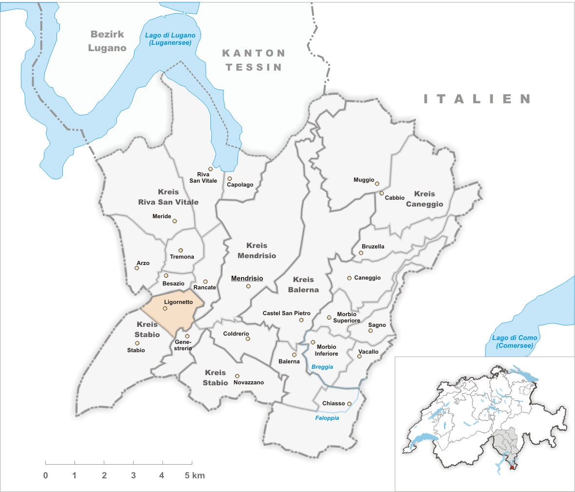 Municipality Ligornetto